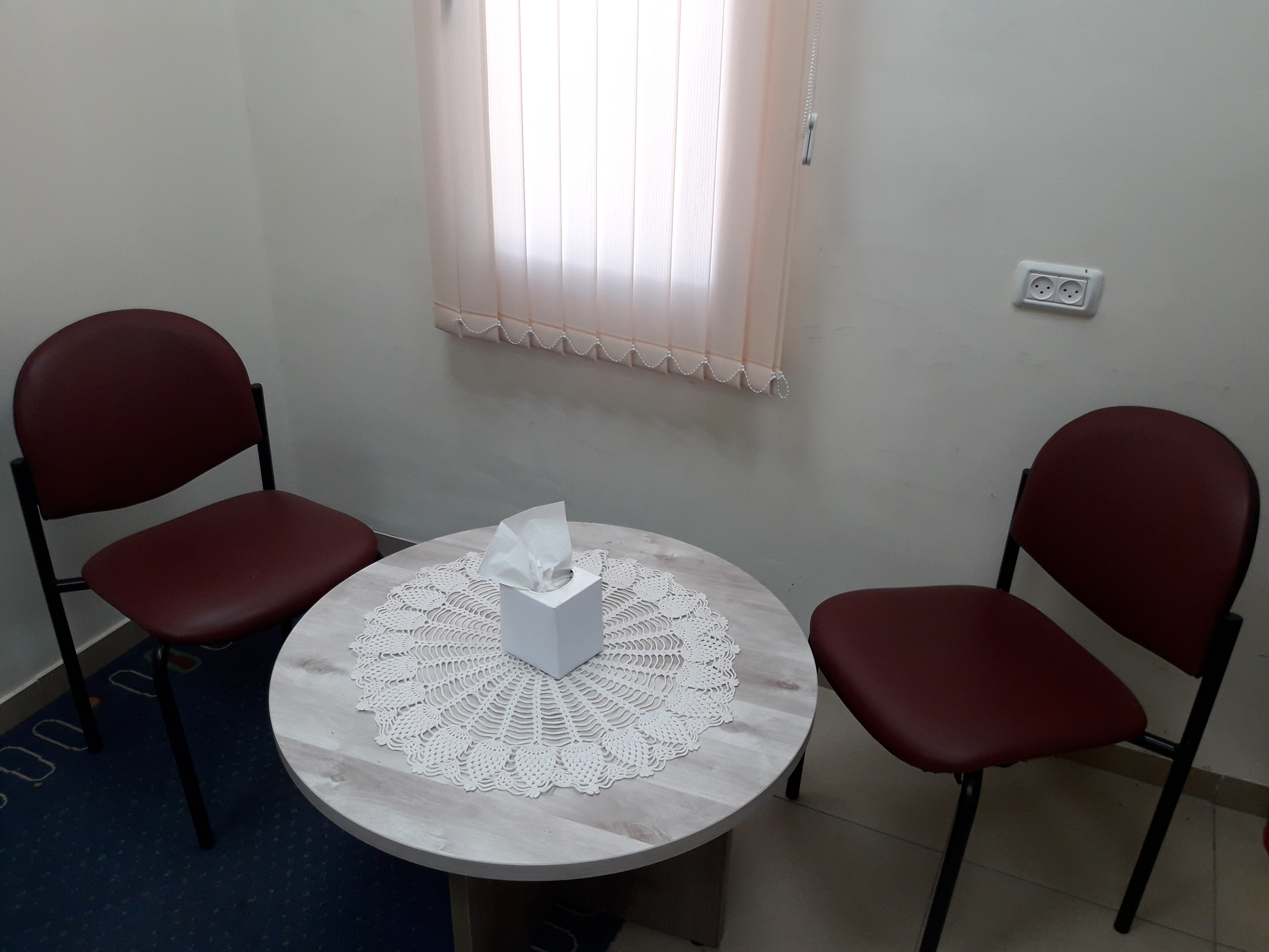 clinic room for psychological therapy.